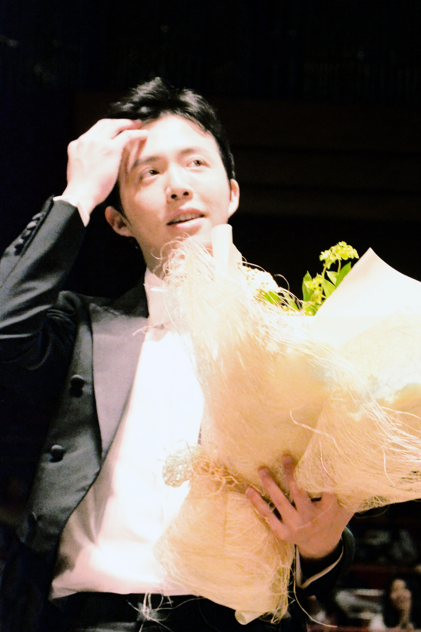 Yundi Li 2016.06.29 ShenZhen